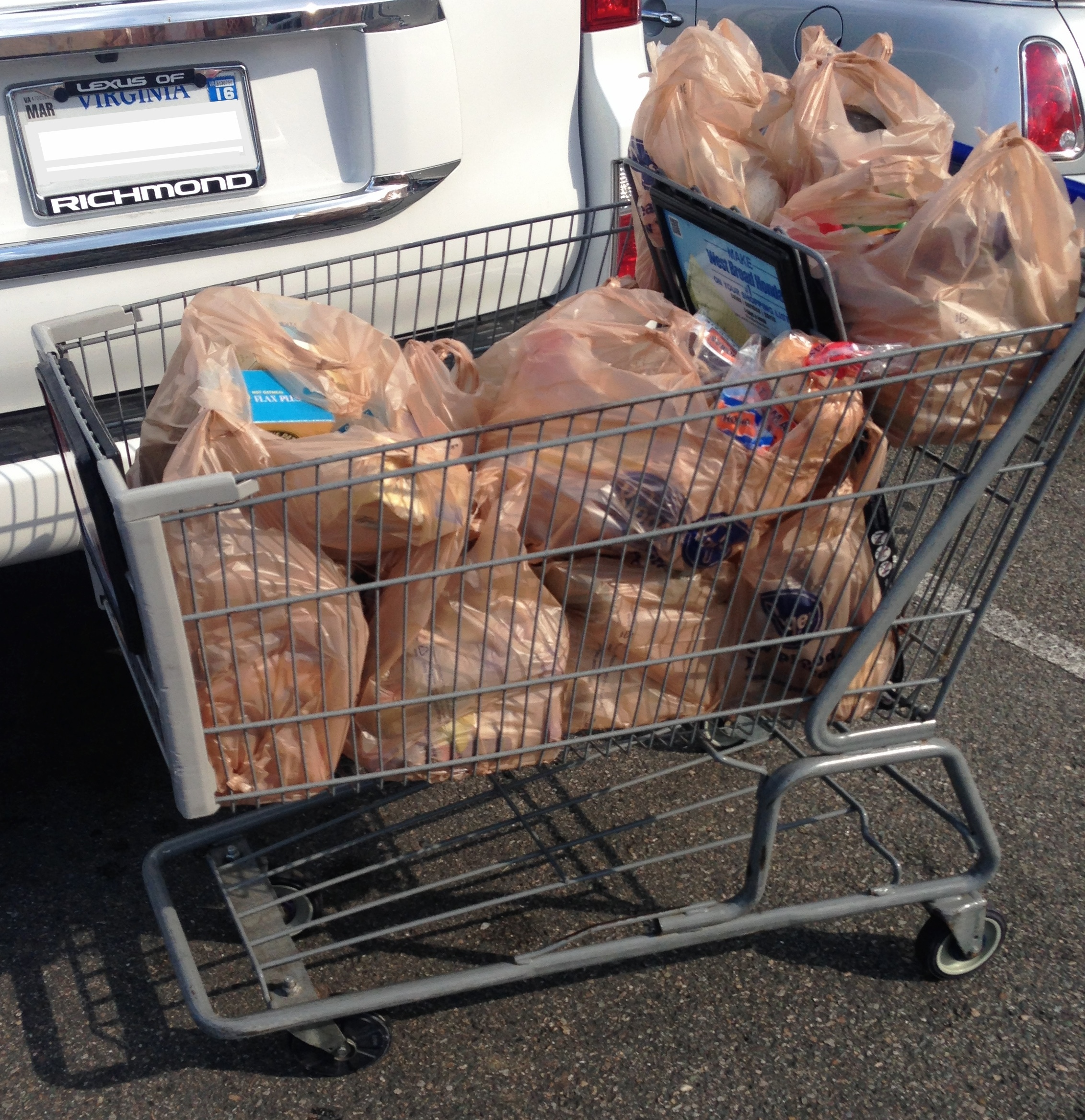 Plastic bags used for shopping